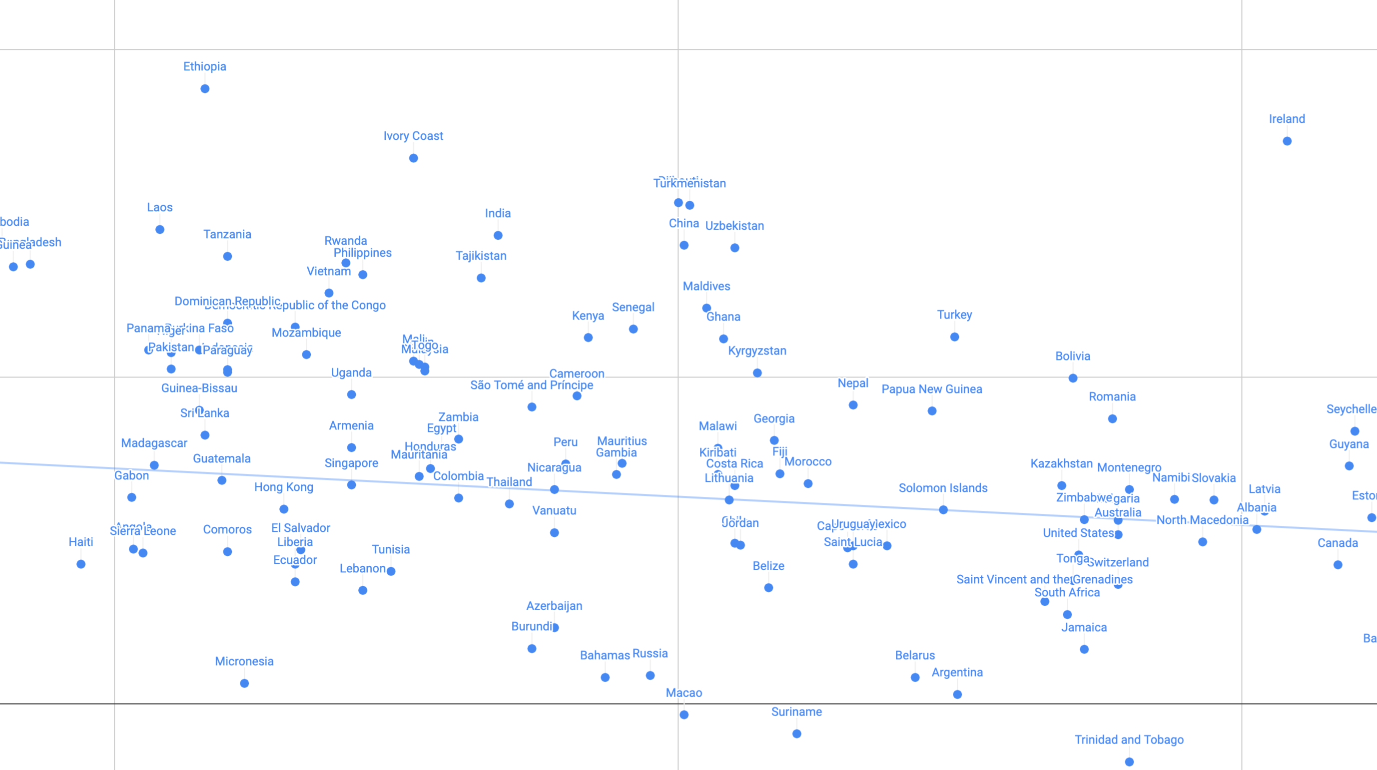 Relation between the tax revenue to GDP ratio and the real GDP growth rate - big zoom